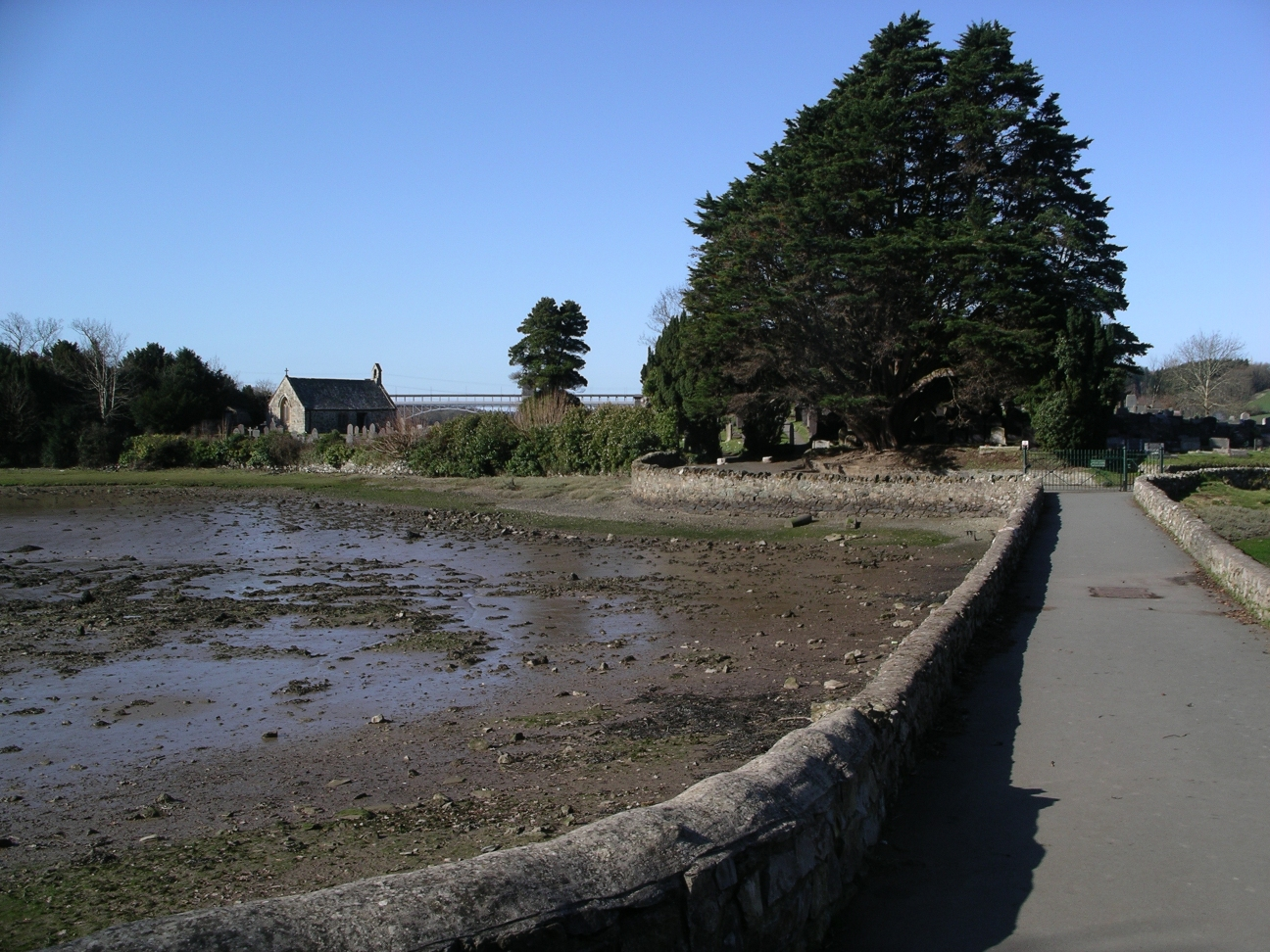 Church Island , Anglesey and the causeway connecting it to the main Island